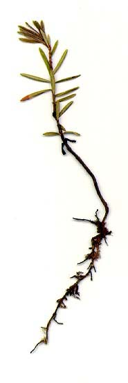 Tsuga canadensis seedling